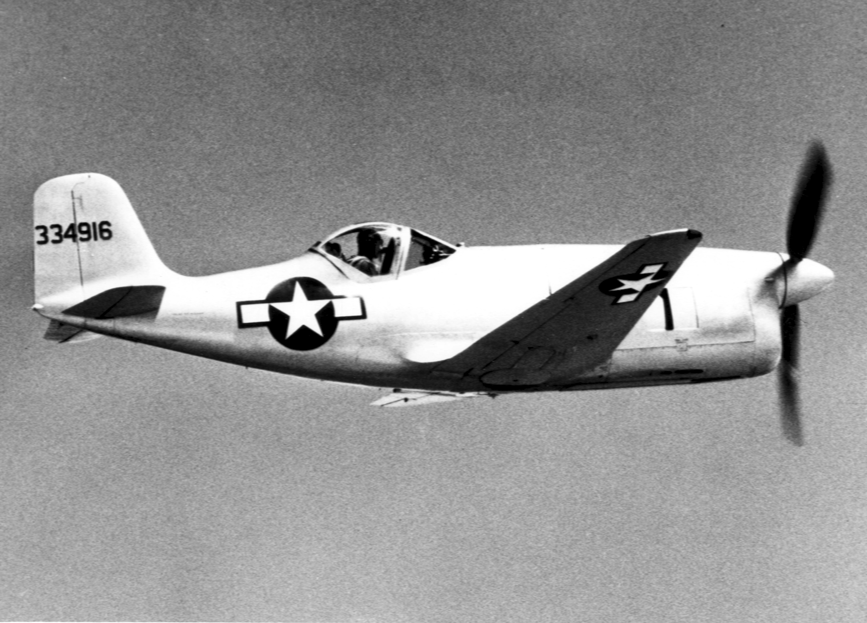 A U.S. Army Air Forces Bell XP-77 (s/n 43-34916) in flight. This aircraft was destroyed in a crash on 22 October 1944.